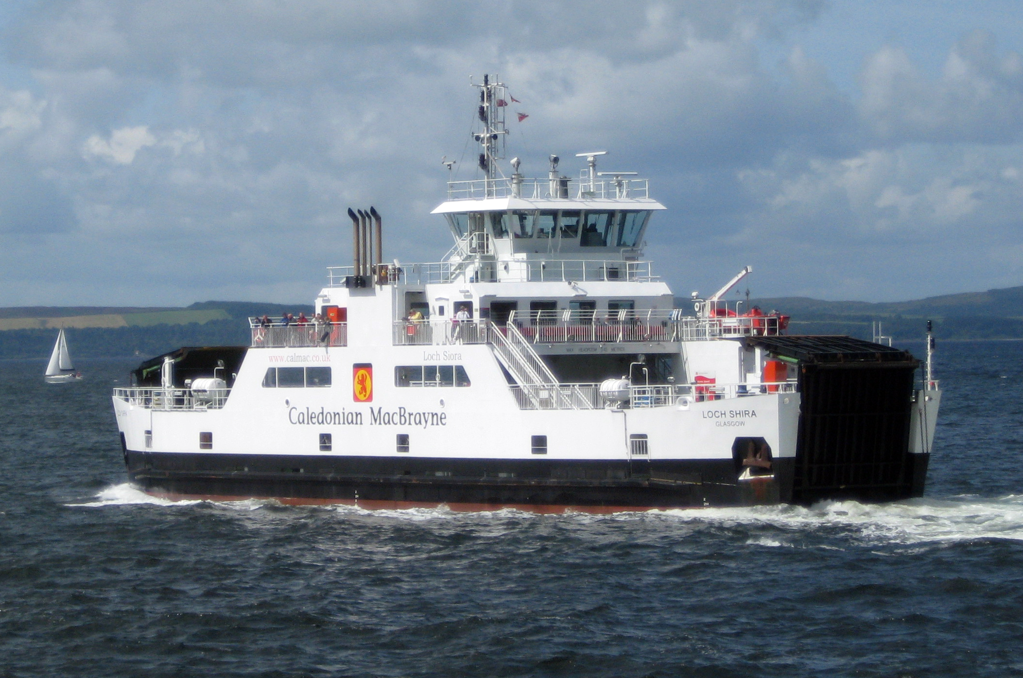 MV Loch Shira leaving Largs, view from astern